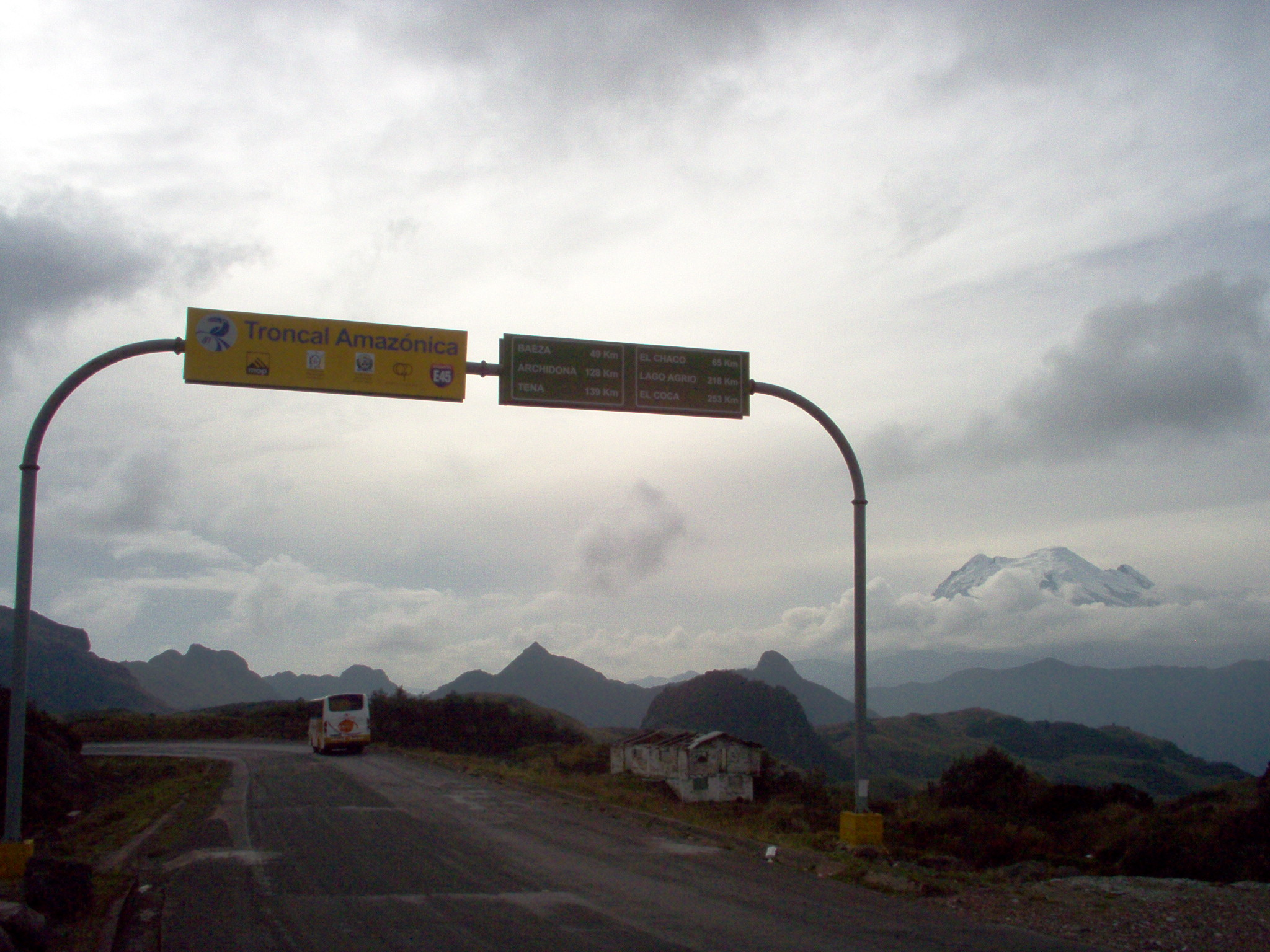 Road E45 in Ecuador («Troncal Amazónico») at Papallacta Pass, 4065m. Cerro Antisana is visible above the clouds